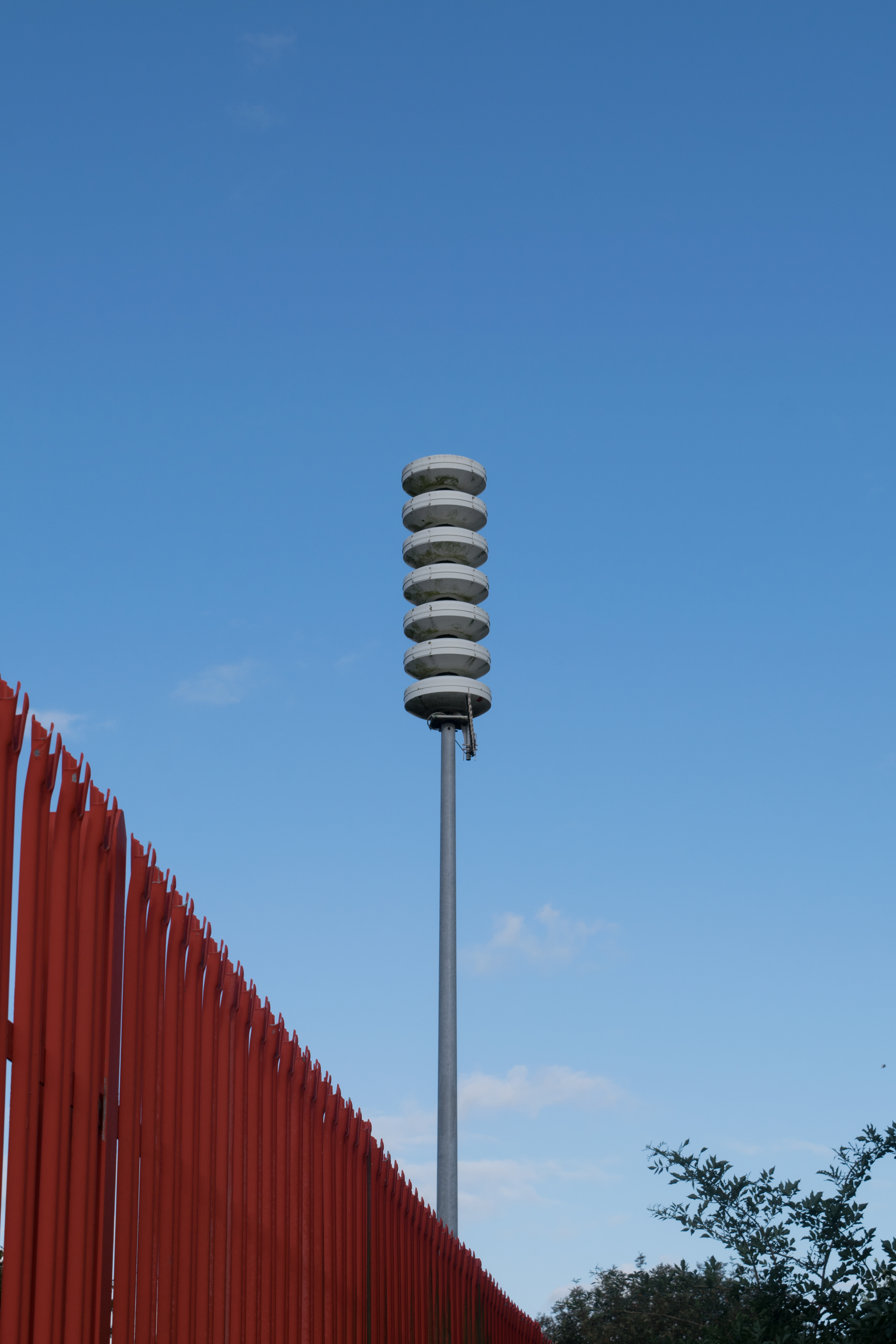 Public warning siren, part of the Severnside Sirens near Avonmouth, UK